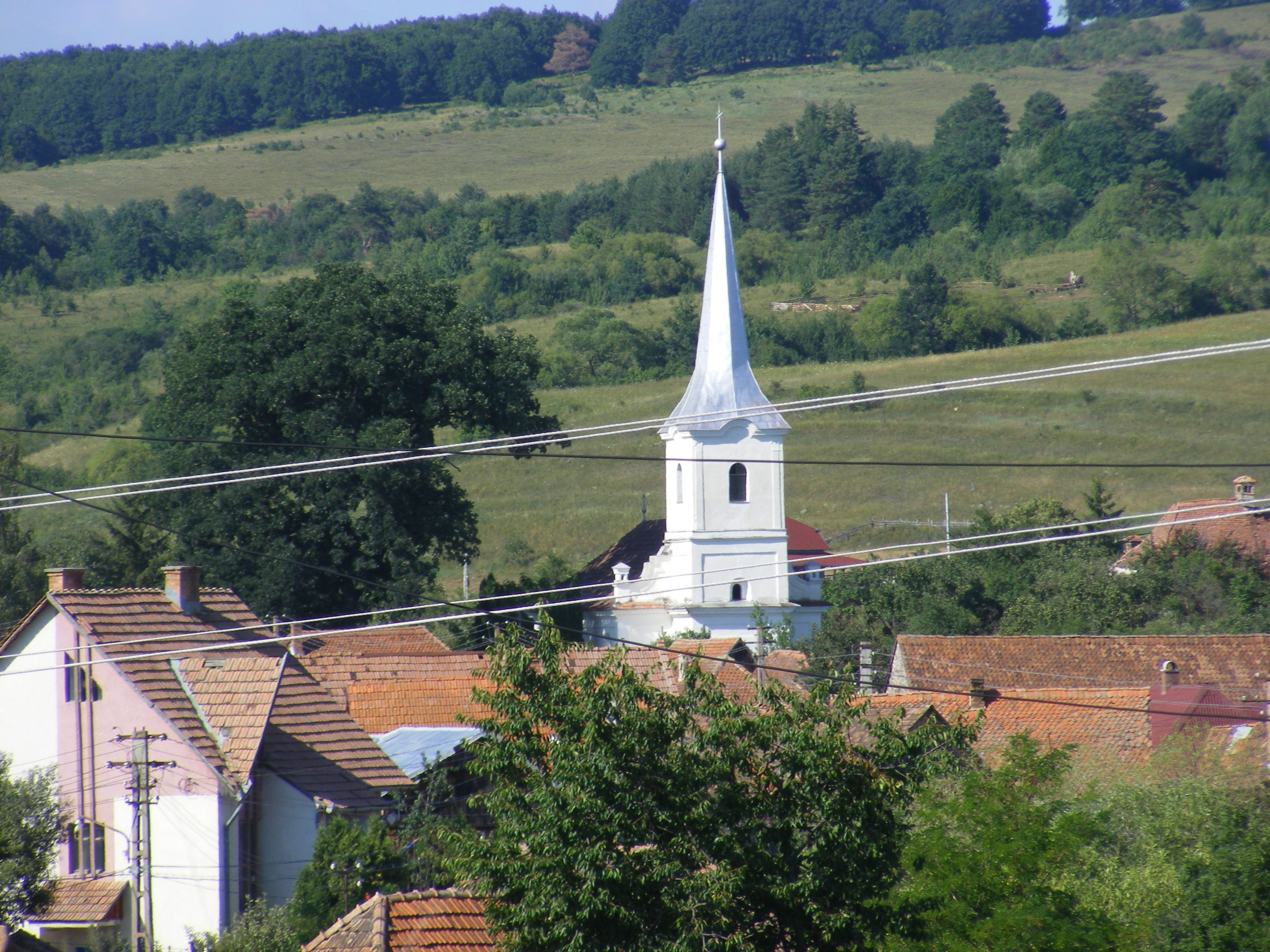 The reformed church in Homoródszentmárton (Mărtiniş).